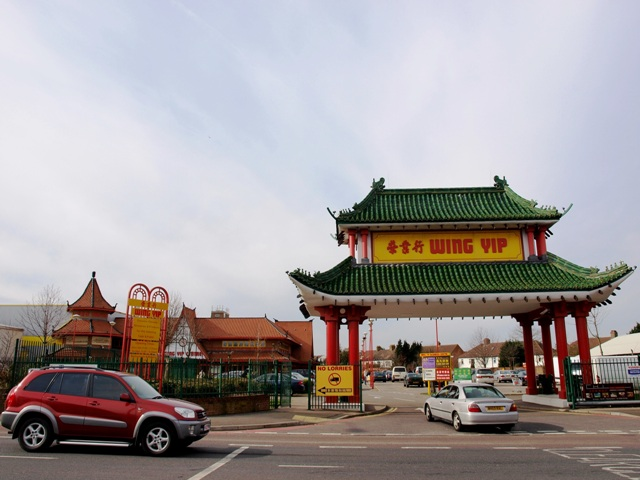 Wing Yip, wholesaler of Chinese foodstuffs besides the A23